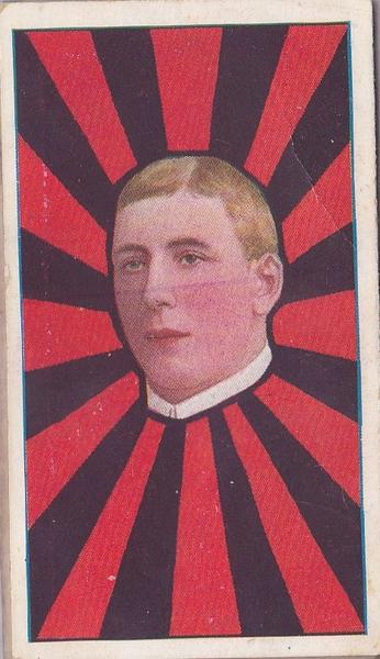 Cigarette card of Jim Martin from the 1911 Sniders & Abrahams series.